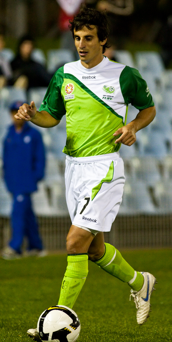 Jason Spagnuolo playing in a pre-season match for the North Queensland Fury against Sydney FC.